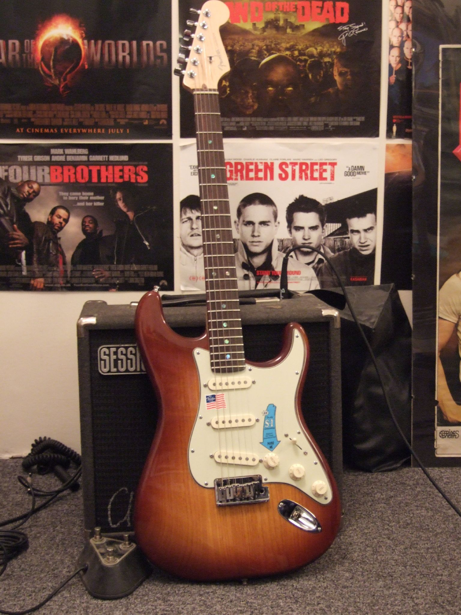 I bought a Strat I broke the neck on my 20 year old Strat copy, so I finally gave in and bought the real thing: an 'American Deluxe Ash Stratocaster'. Plays like a dream. My neighbours wish it still was. And finally playeded it live